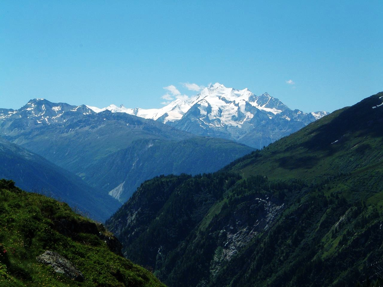 Mischabel from Belalp, Switzerland